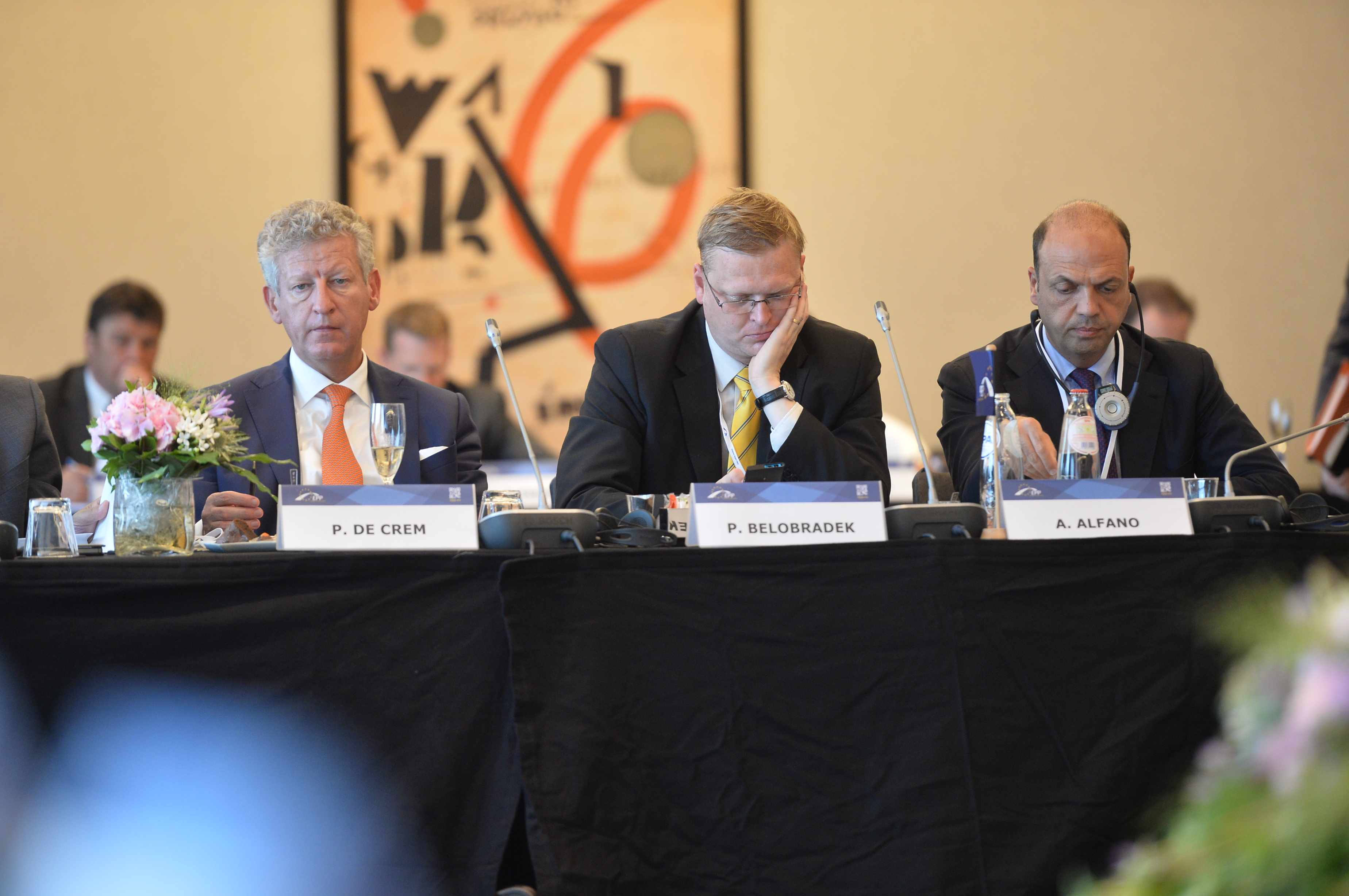 European People's Party Summit in Brussels in July 2014 in preparation of the European Council meeting